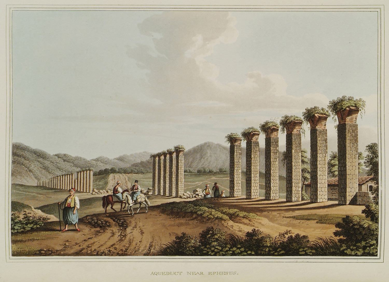 Luigi Mayer. Views in the Ottoman Dominions, in Europe in Asia, and some of the Mediterranean Islands, Λονδίνο, P. Bowyer, 1810.